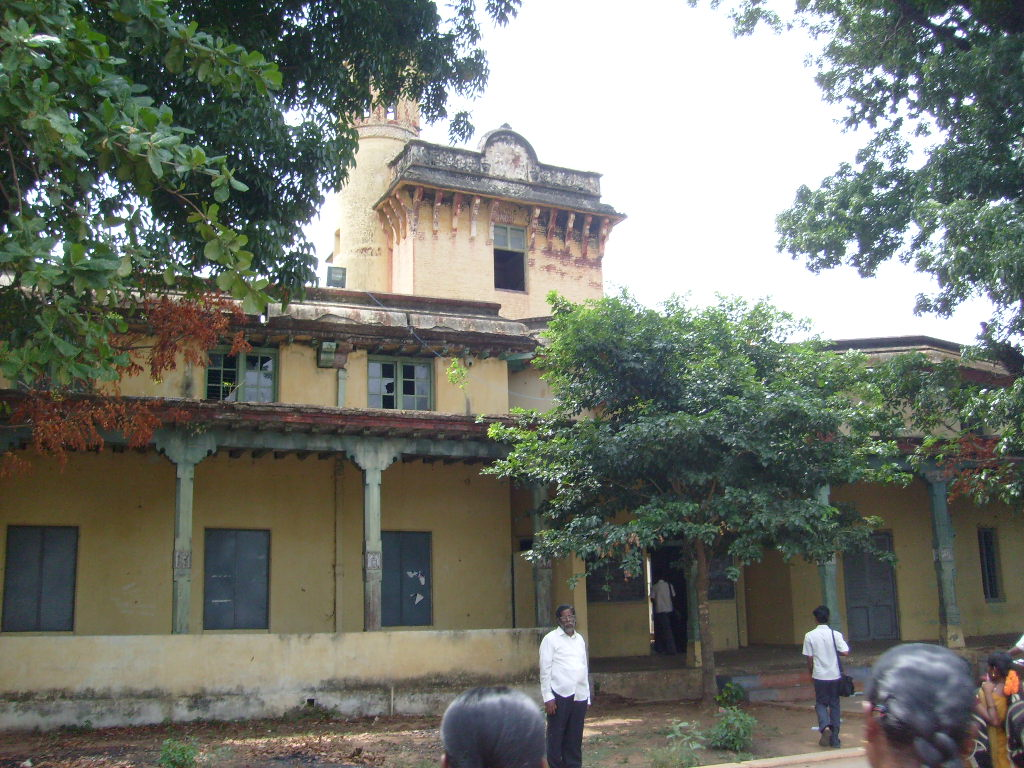 Entrance to Government Arts College